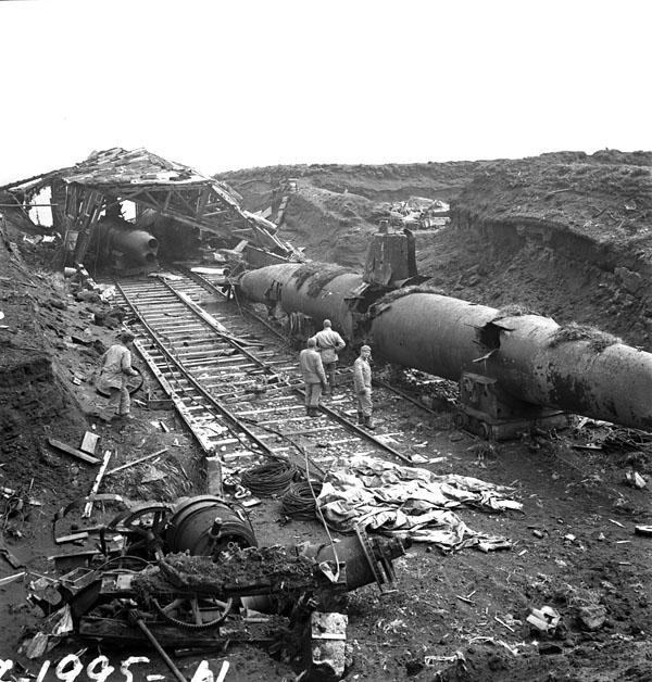 Canadian and American soldiers examining abandoned Japanese submarines on Kiska, Aleutian Islands, September 1, 1943.